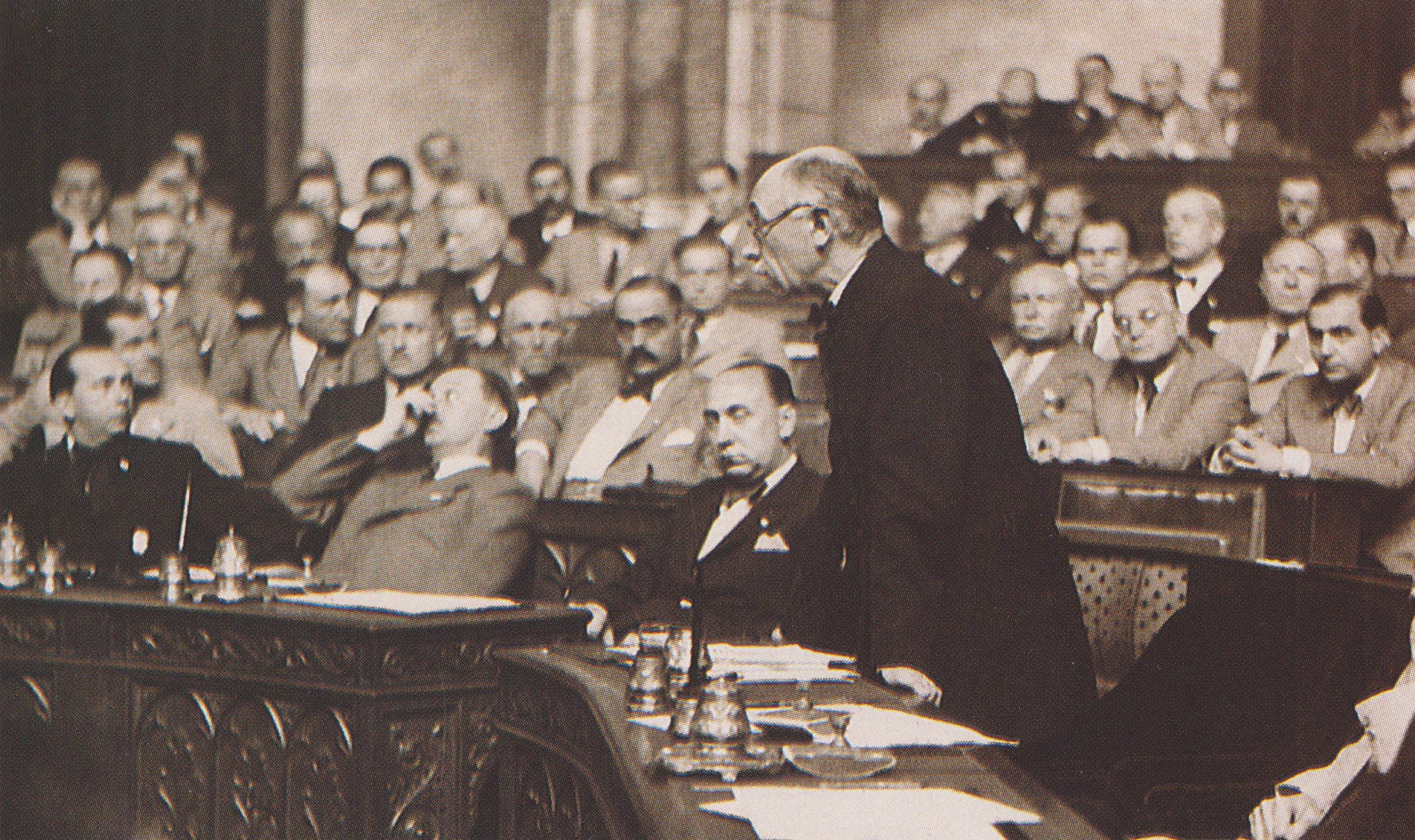 Pál Teleki is giving a speech in the Hungarian Parliament In june 1939